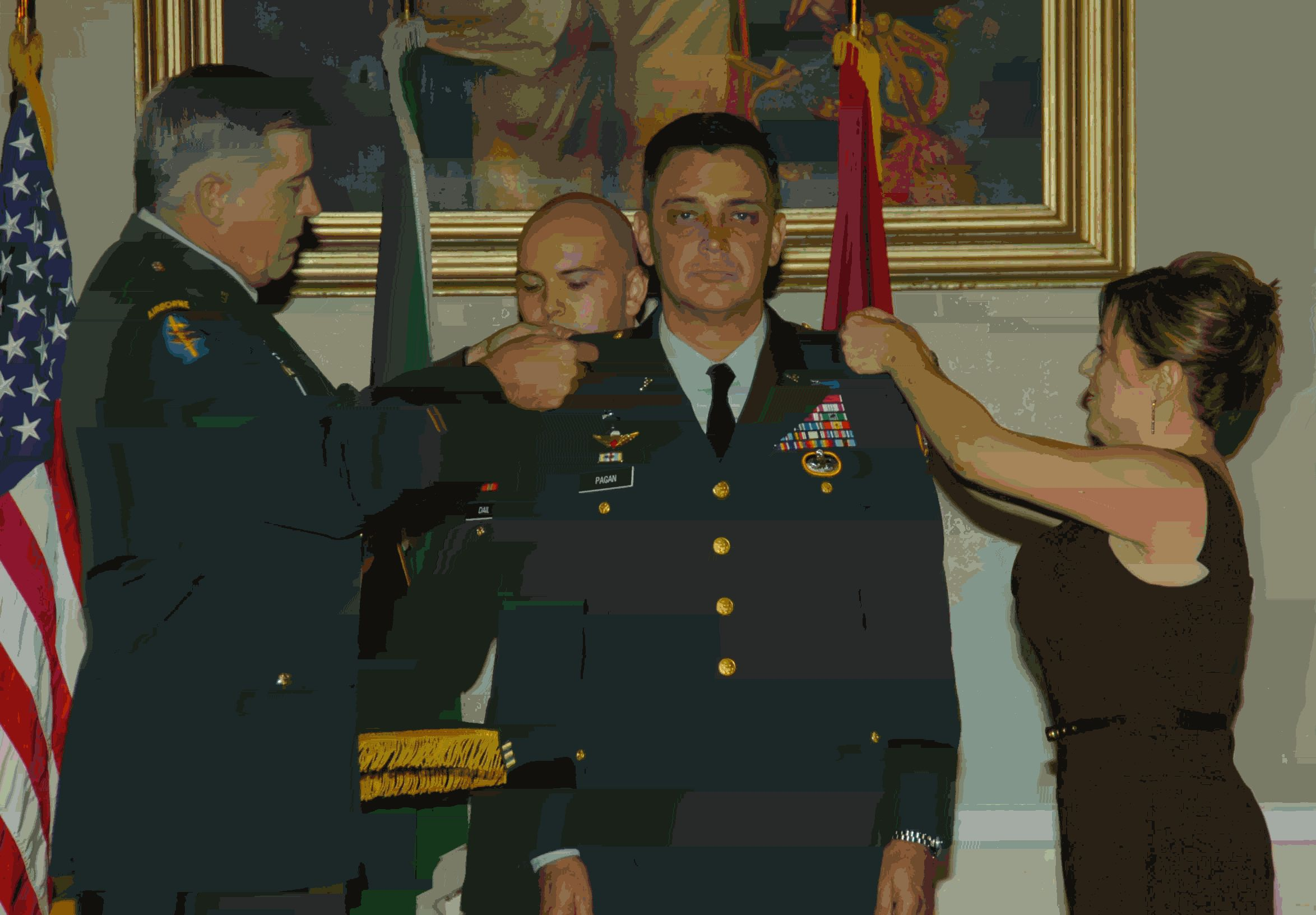 Image of BG Pagan Pagan promoted to brigadier general